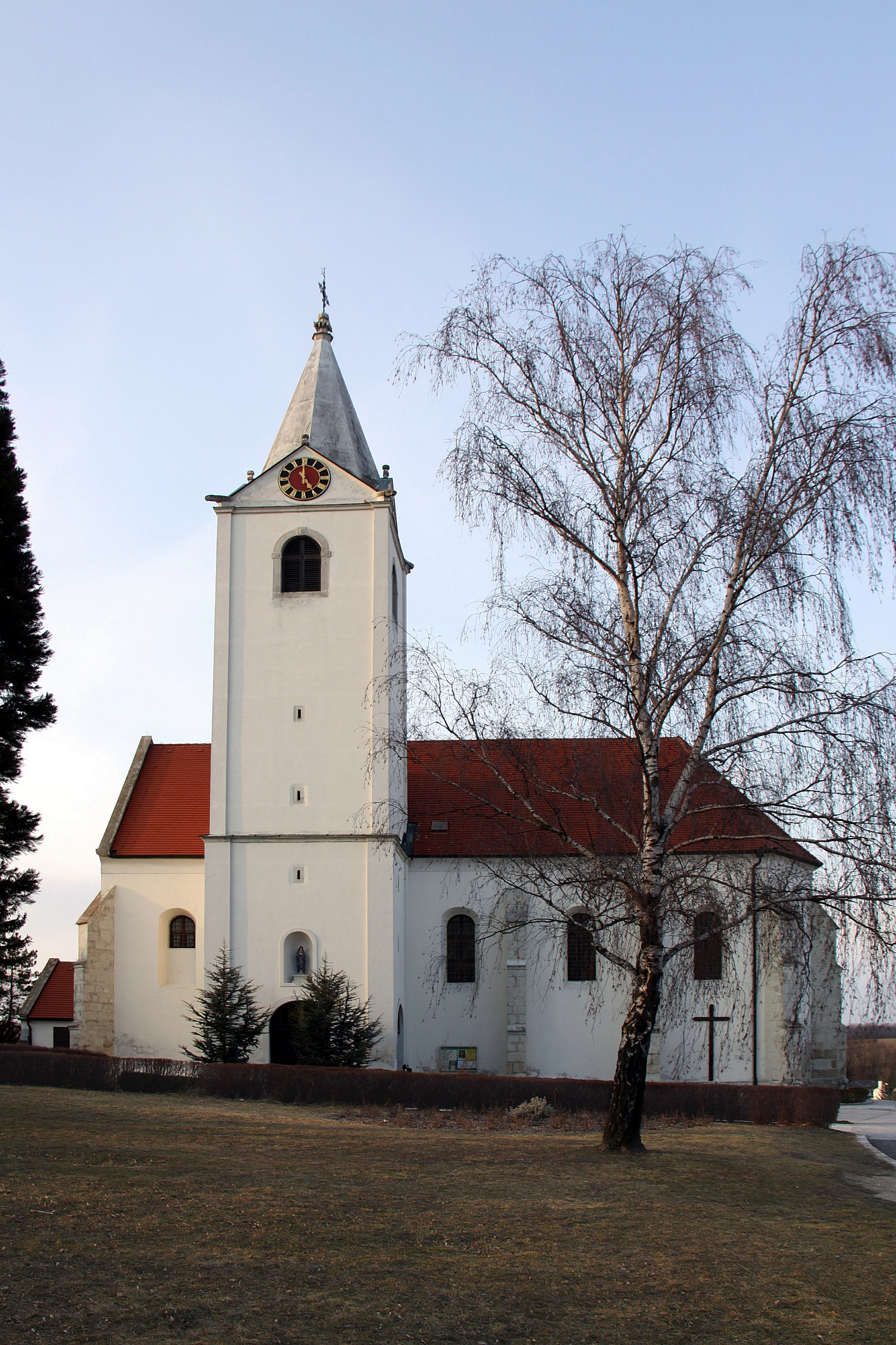 Parish church „zum hl. Kreuz“ - Steinbrunn. Object location47° 50′ 16.06″ N, 16° 24′ 30.91″ E